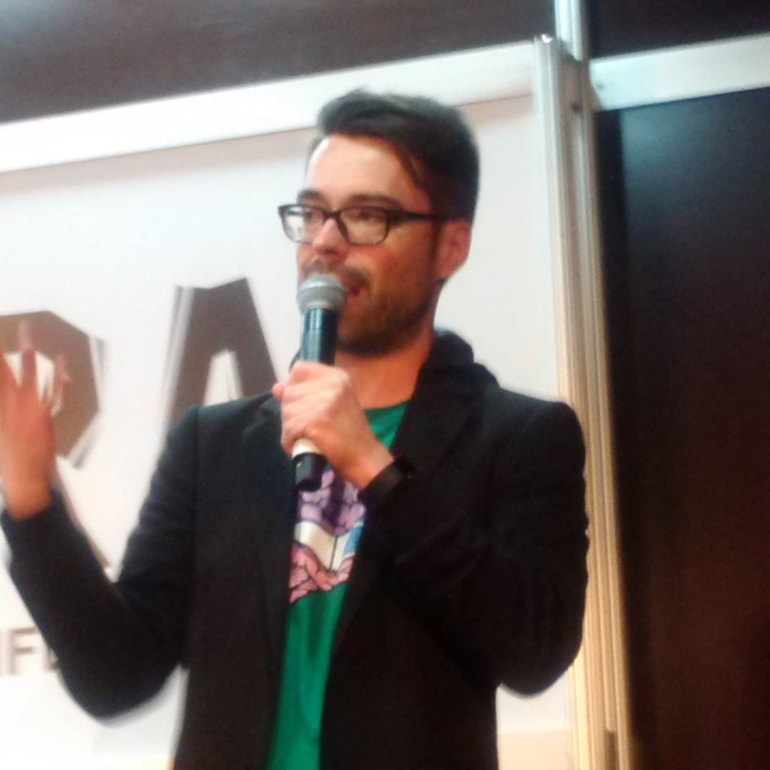 Pharmacist and author Olivier Bernard presenting at Montreal's 2017 Salon du livre. (picture 1 of 2)